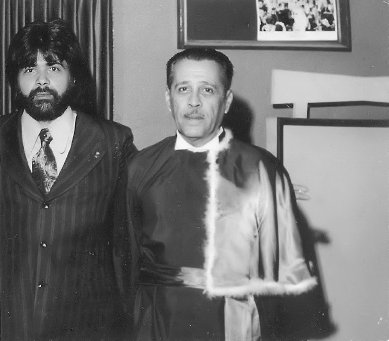 Arquivo Memorial Dr. Romildo Borges Mendes